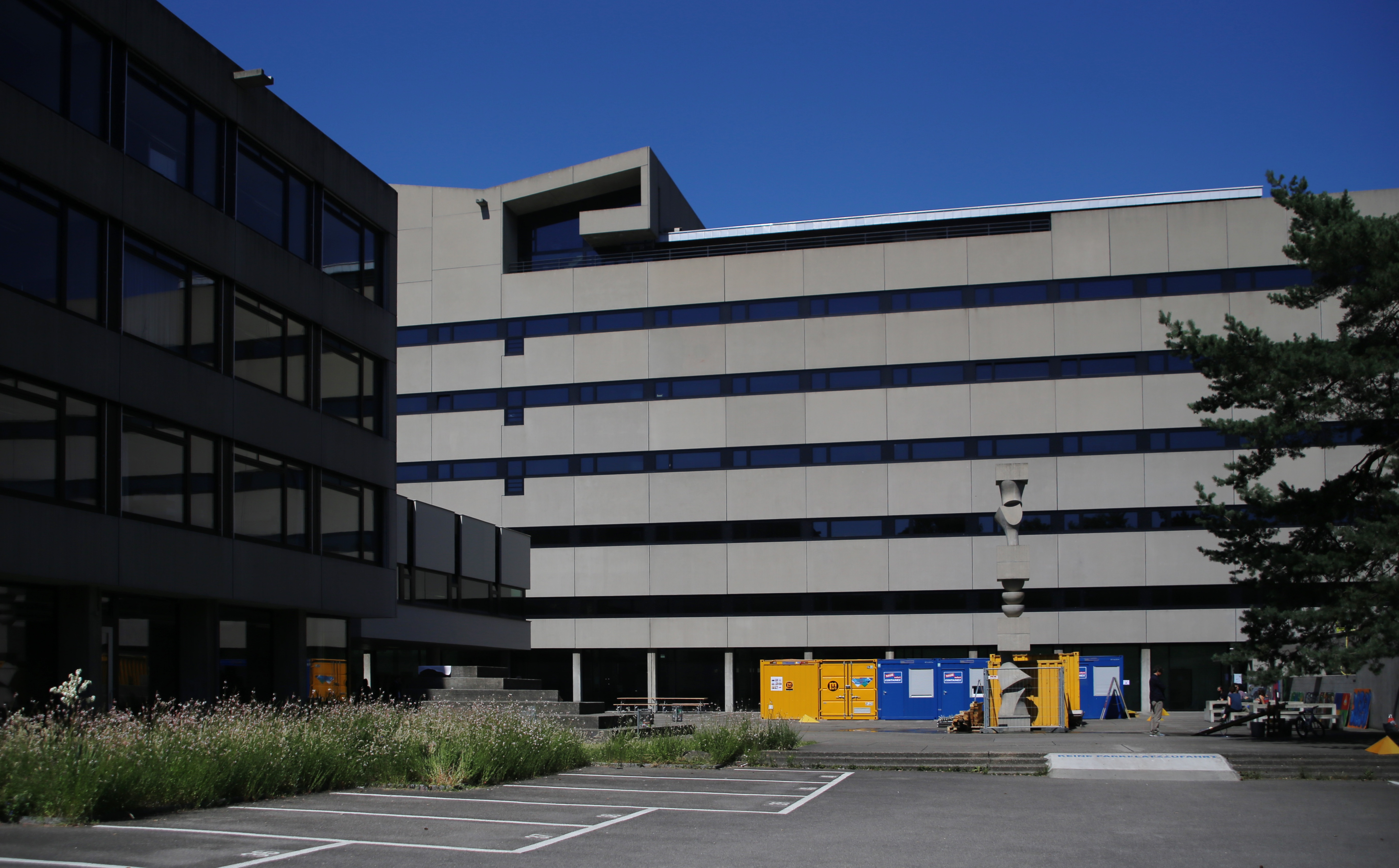 Campus of the Allgemeine Gewerbeschule Basel / Schule für Gestaltung Basel, built 1956-61.